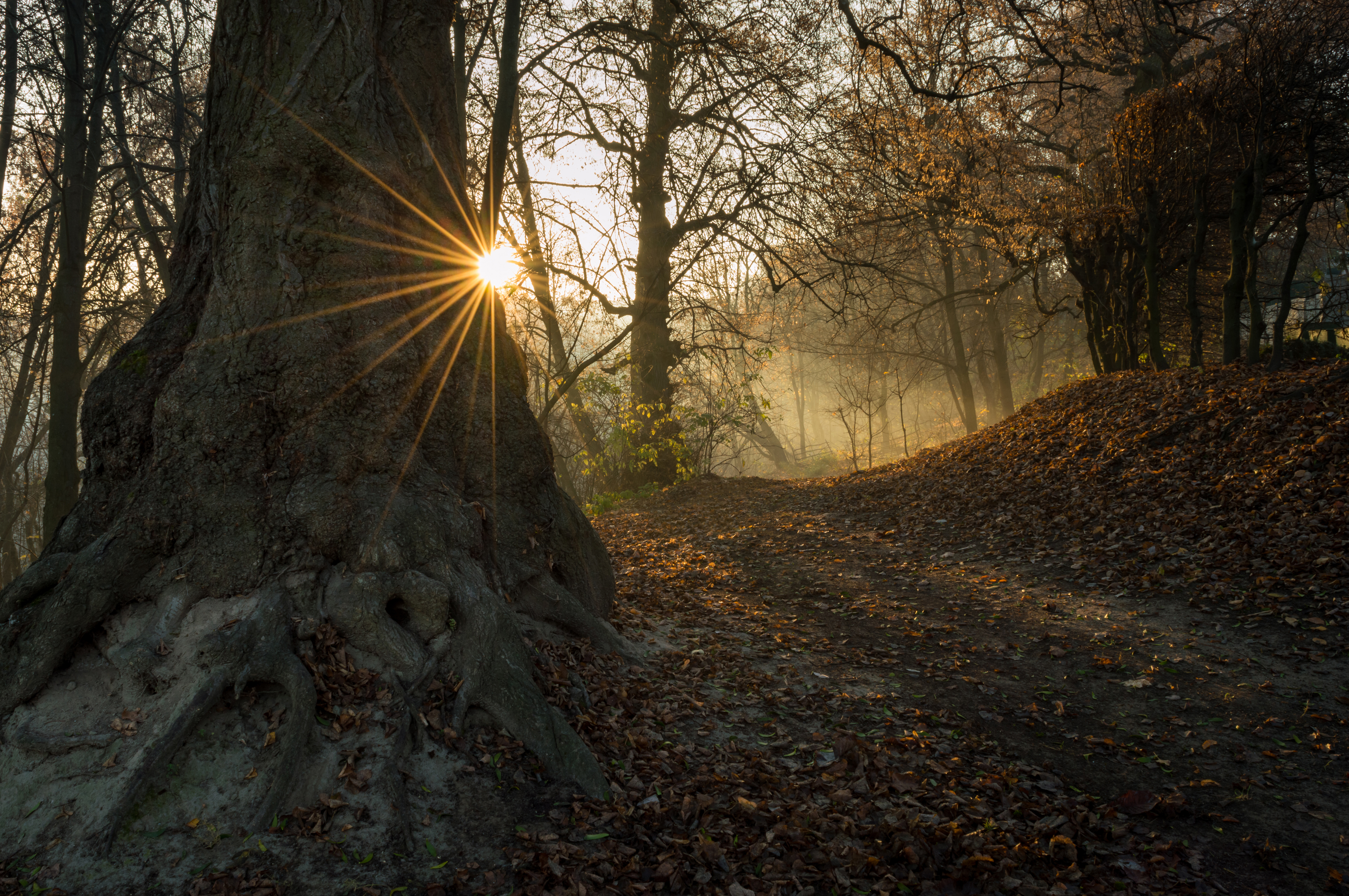 Molodizhnyi Park, Fastiv district, Fastiv city council. The photo was taken in the park, in its wooded part, where old trees immerse us in the mysterious atmosphere of a real fairy tale.